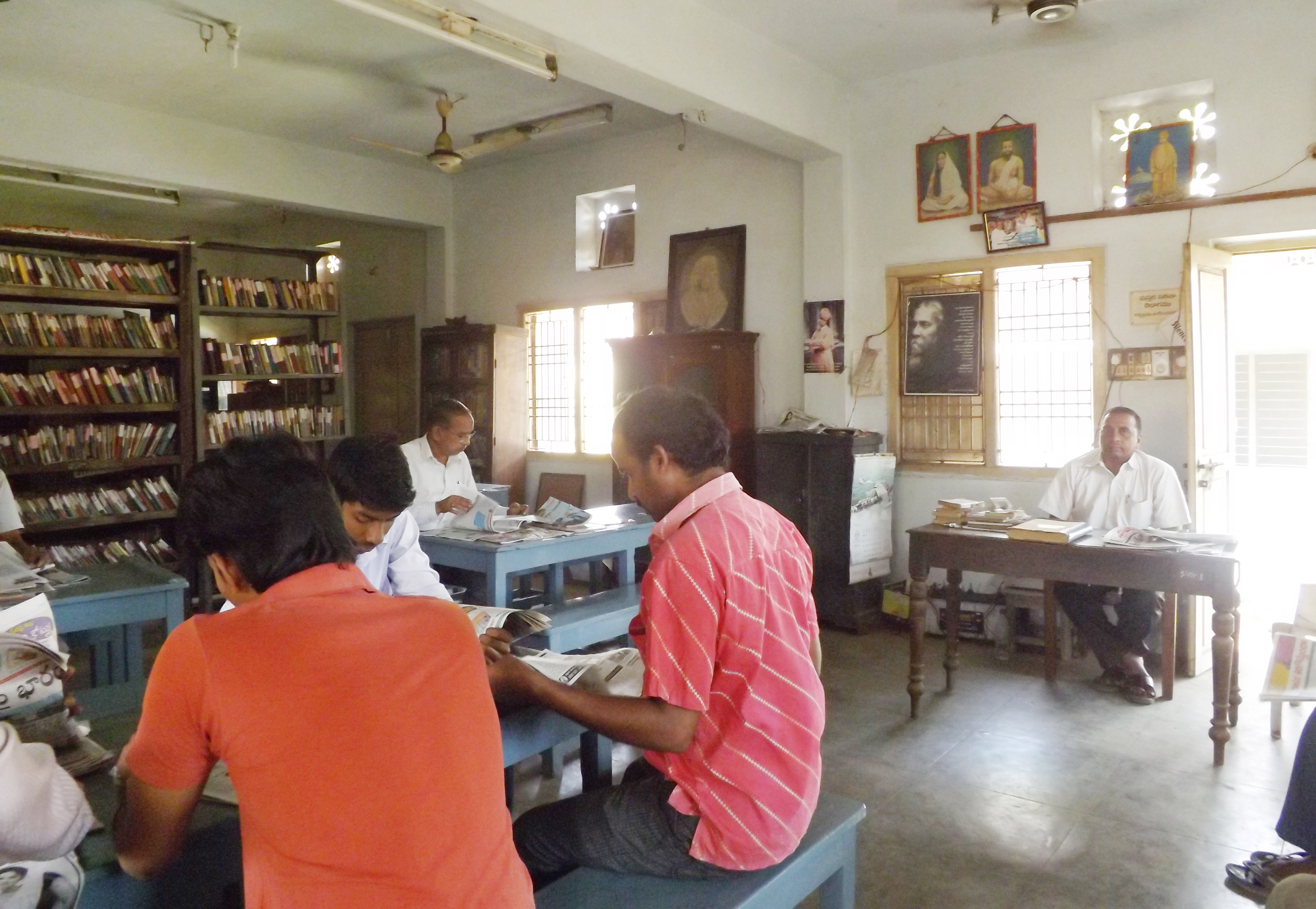 Suryaraya Vidyananda Library of Pithapuram - Andhrapradesh